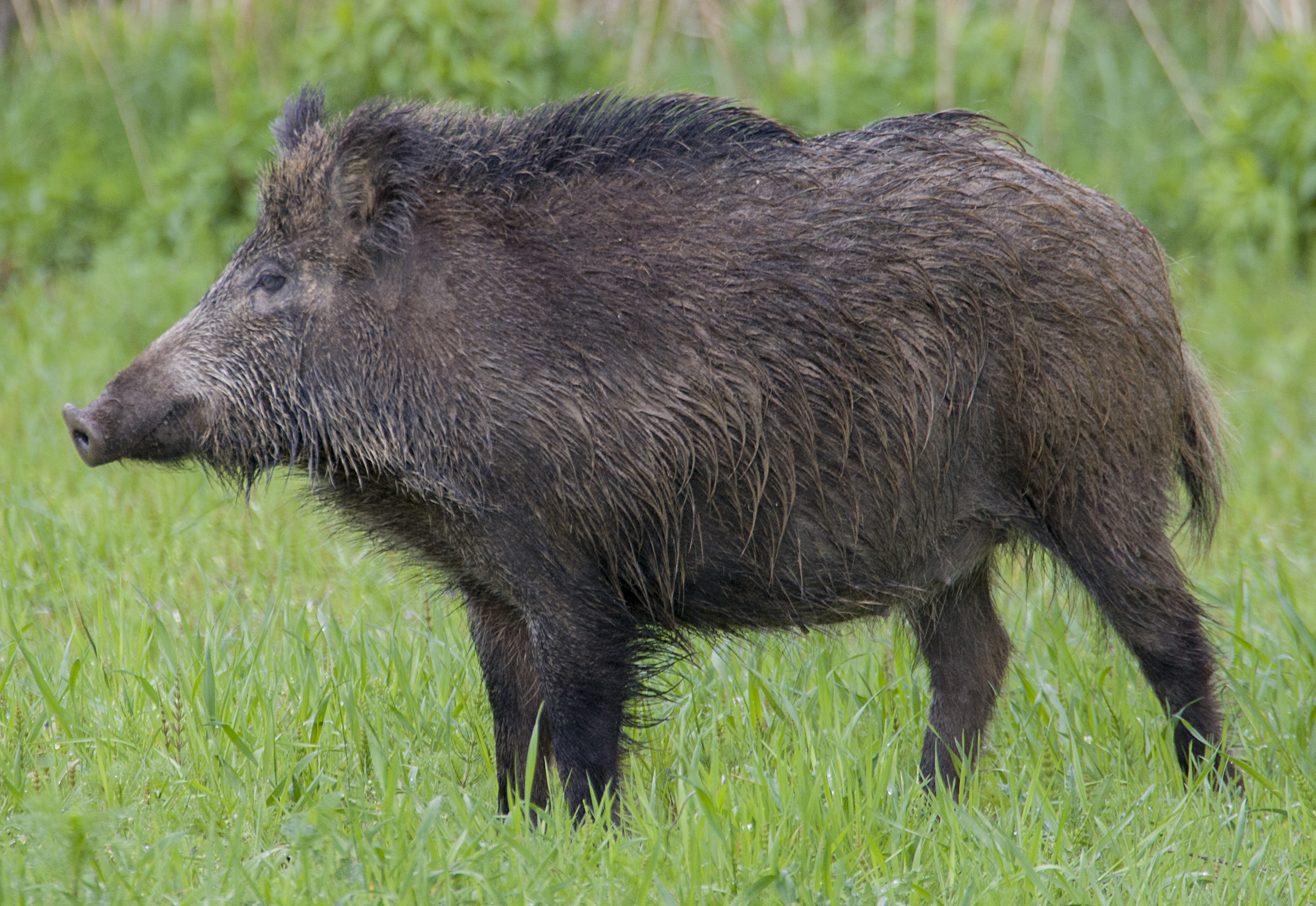 Wild boar